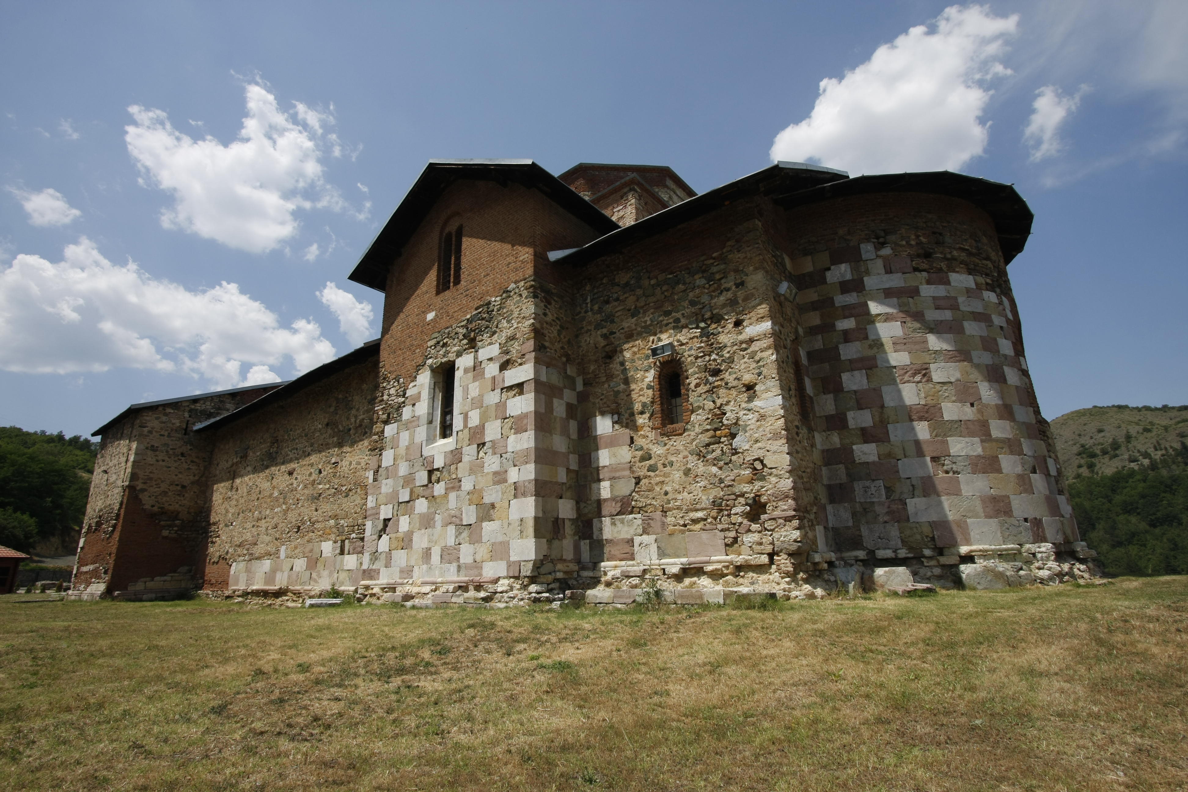 Manastir Banjska, jugoistok